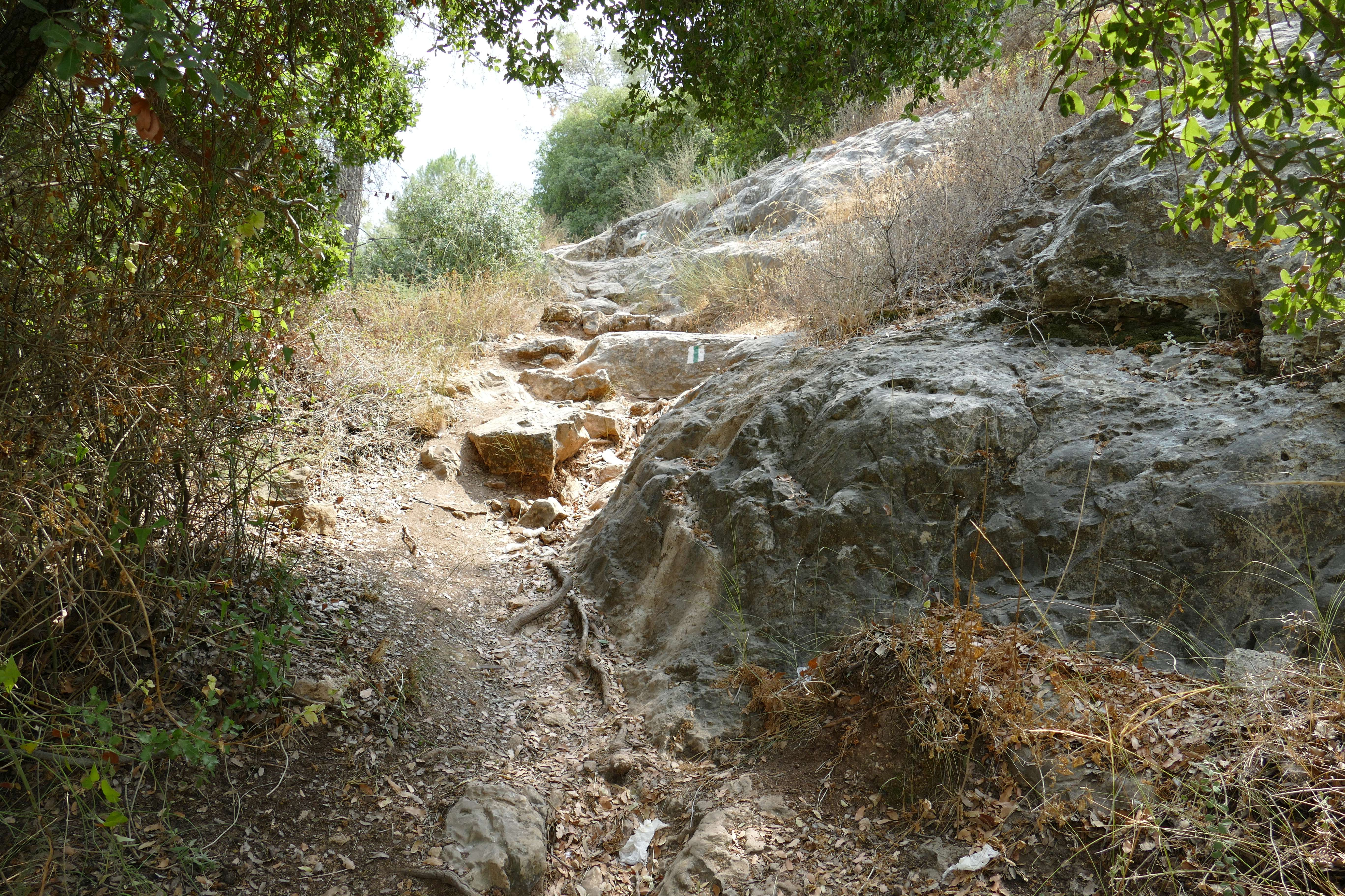 Makam of Deir ash-Sheikh, near Bar Giora / Nes Harim, palestine.